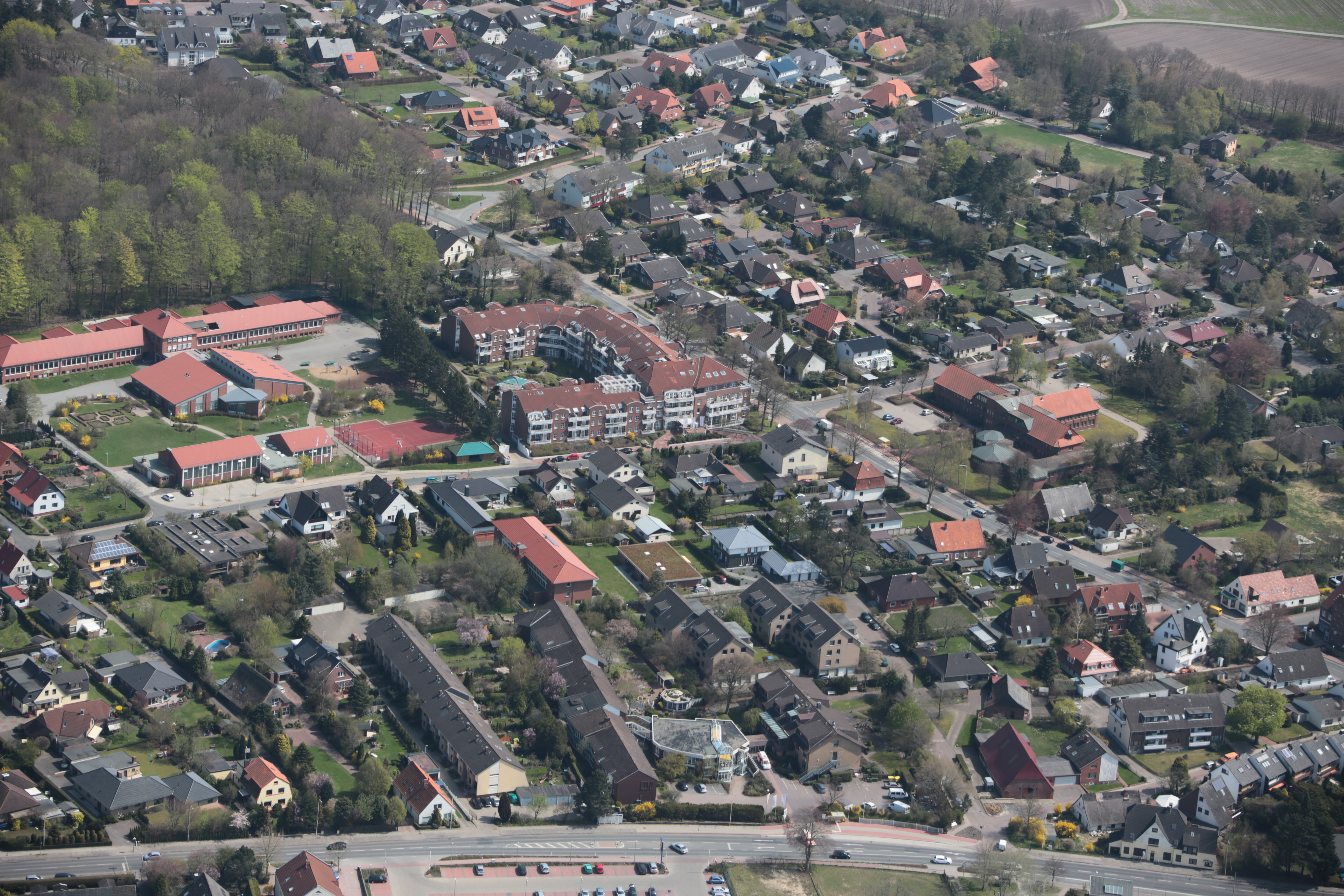 Fotoflug von Nordholz-Spieka nach Oldenburg und Papenburg This photo was taken by Alchemist-hp. If you use one of my photos, an email (account needed) or a message or direct to: my email account would be greatly appreciated. Please note the license terms. Other licensing terms can get discussed, too. This file is copyrighted and has been released under a license which is incompatible with Facebook's licensing terms. It is not permitted to upload this file to Facebook.